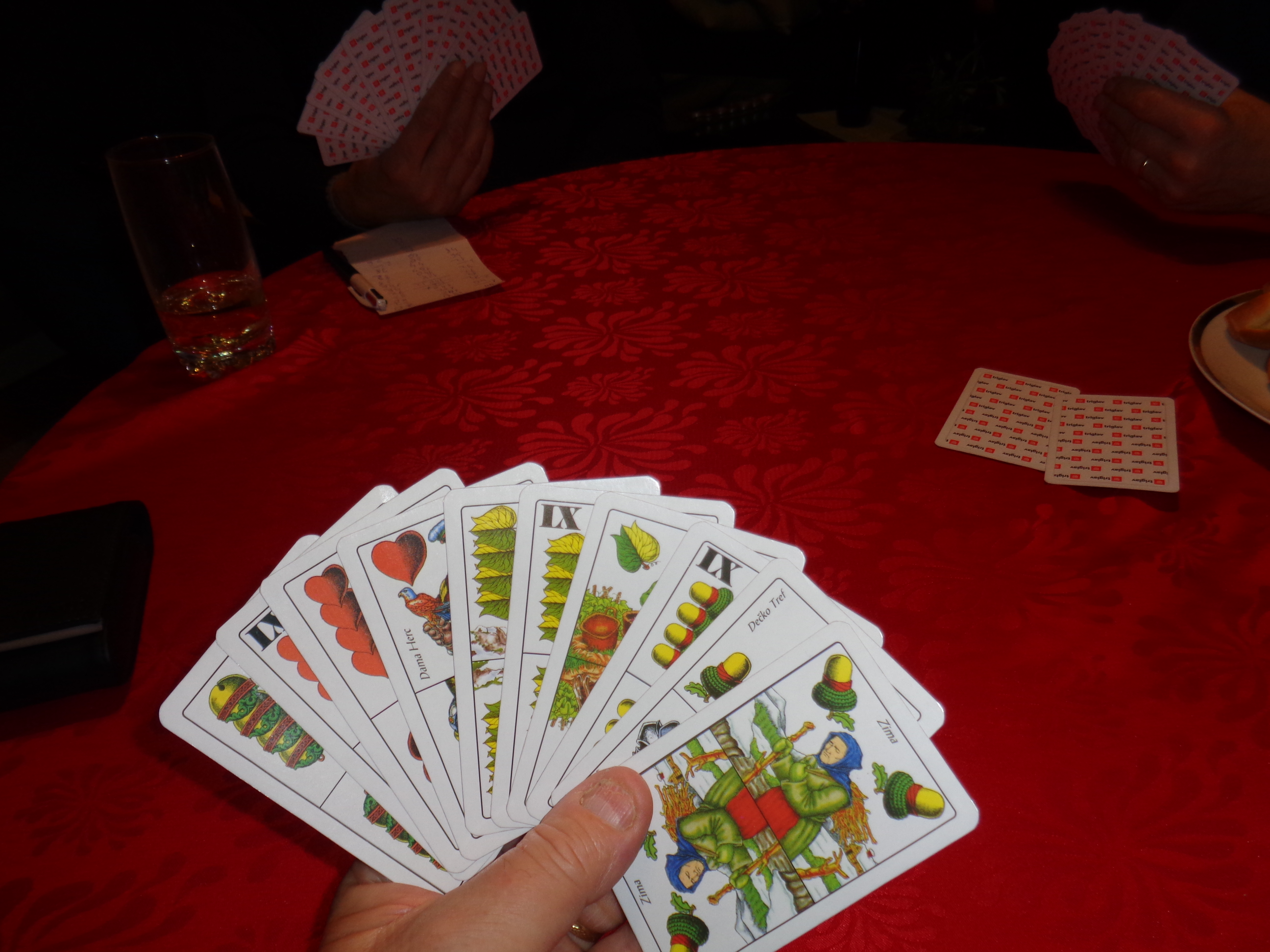 People playing preferans, Croatian version of préférence card game